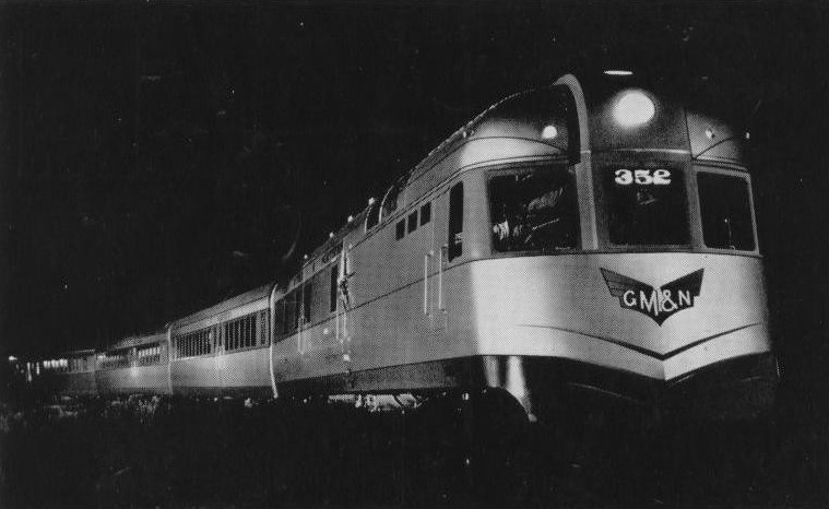 Postcard photo of the Gulf Mobile and Northern "Rebel" streamlined train. The original streamlined train went on the rails in 1936. By 1940, the GM&N merged with the Mobile and Ohio Railroad to create the Gulf, Mobile and Ohio Railroad.